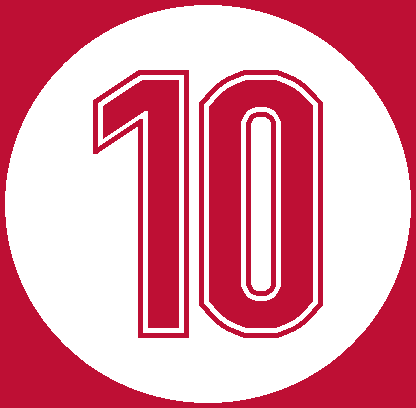 The number "10", retired for Sparky Anderson by the Cincinnati Reds.